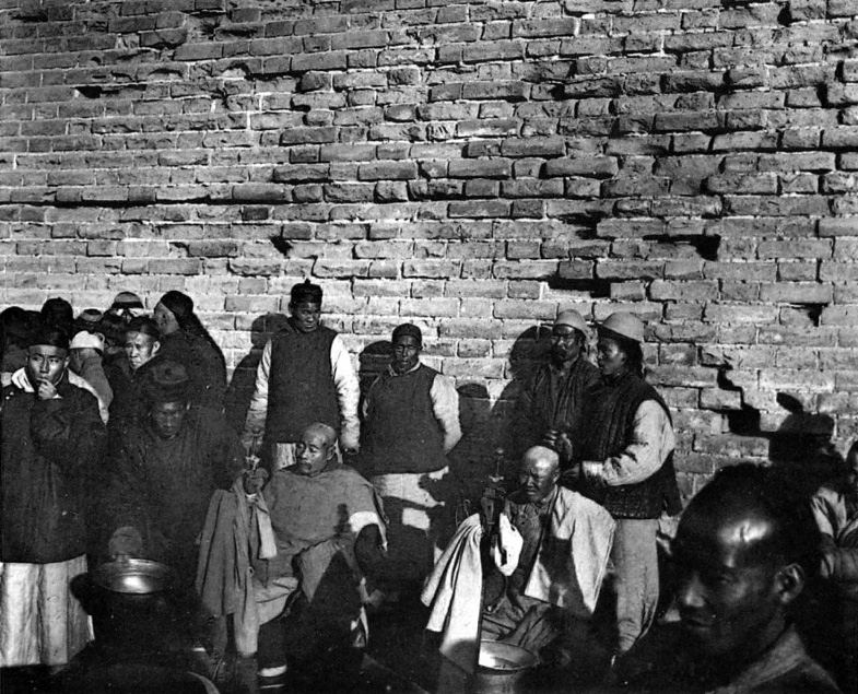 Image from La Chine à terre et en ballon.